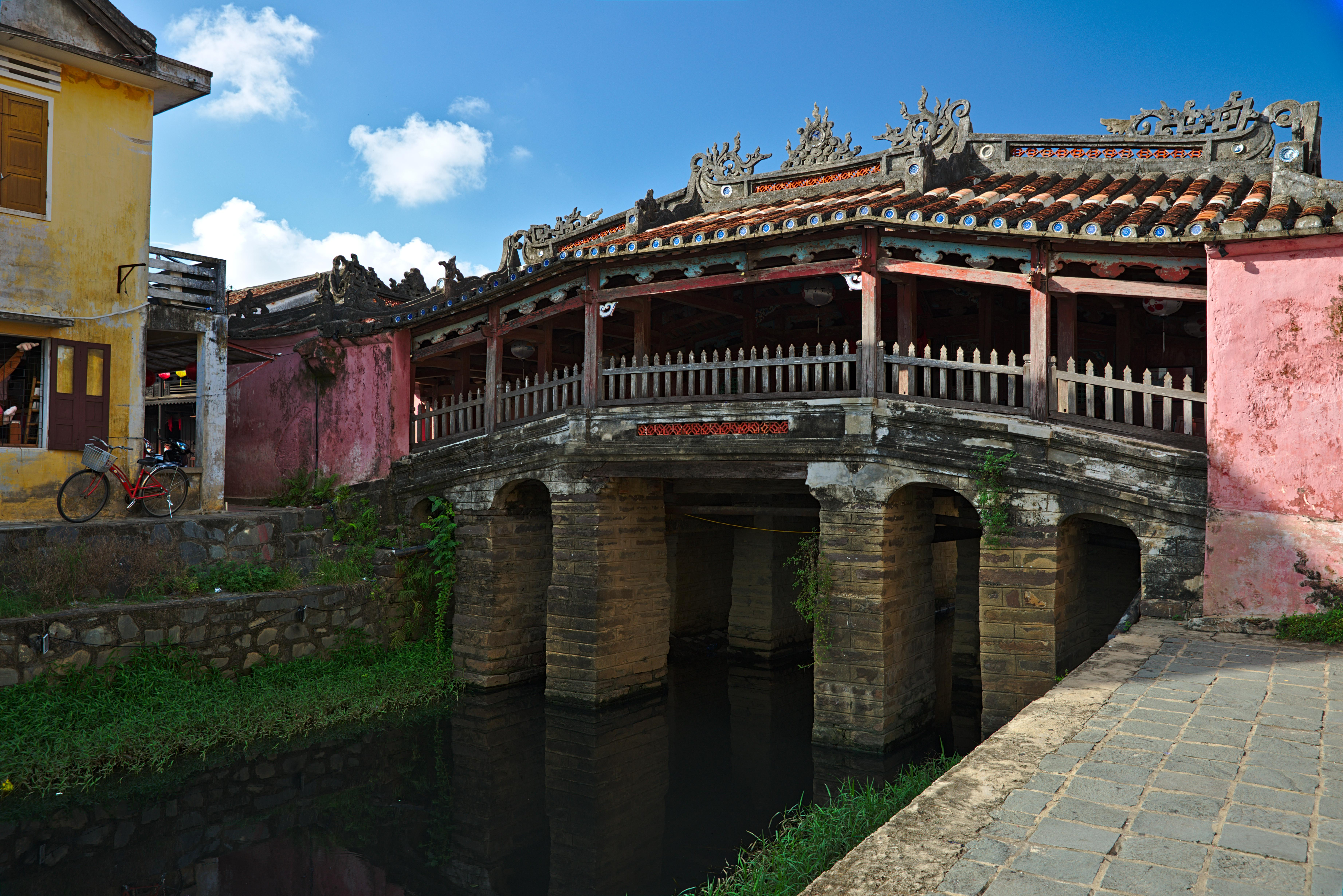 Japanese bridge, Hội An